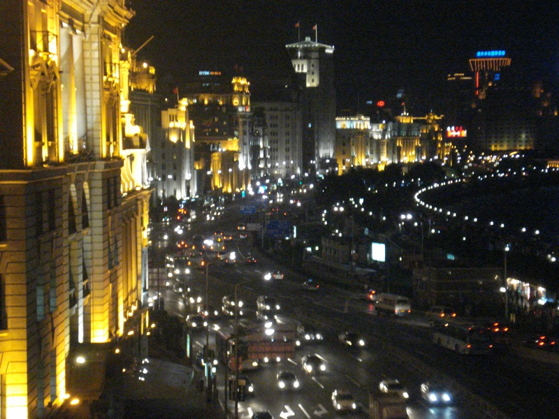 The Bund in Shanghai at night